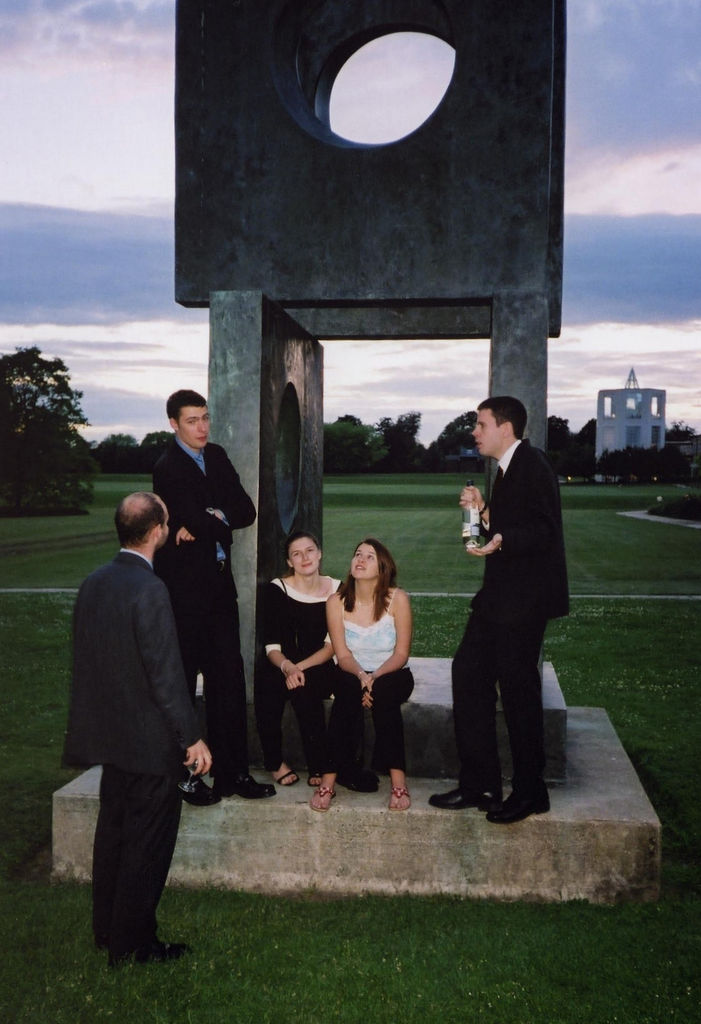 Photo taken by Low Starkey. Permission given to use in this way. Hepworth sculpture permanently sited at Churchill College, Cambridge, UK. (additional description by JackyR)